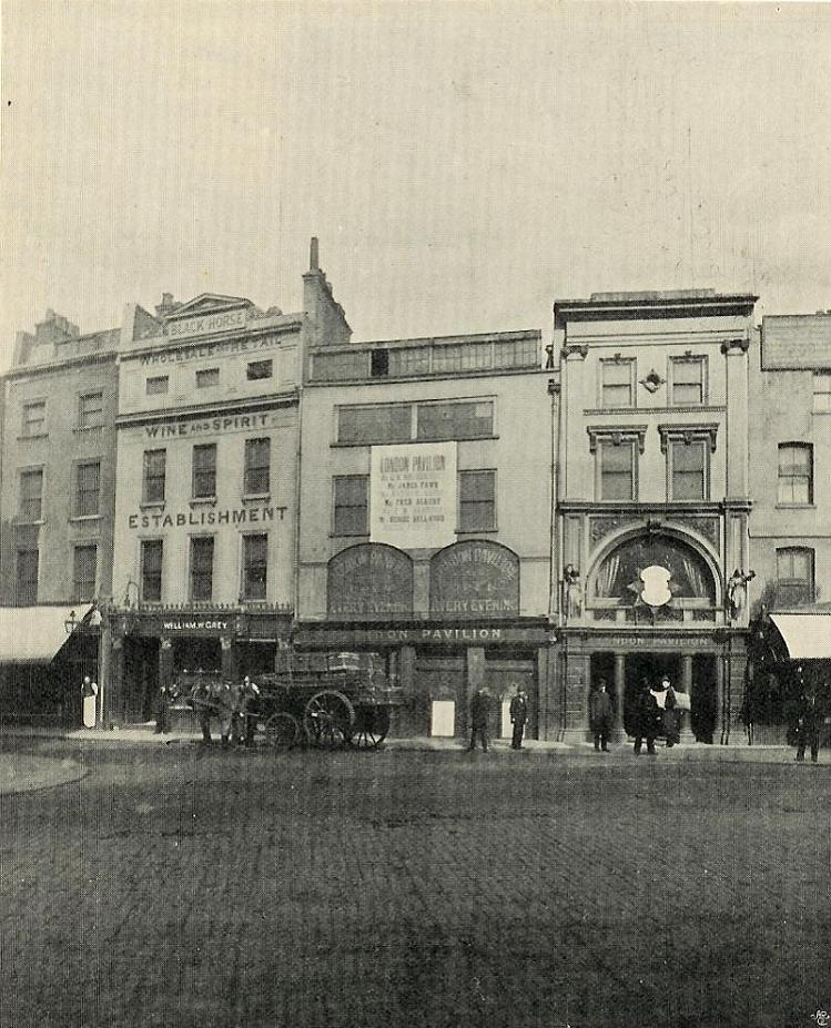 The old London Pavilion (1859-1885) located in the northeast of Piccadilly Circus. Facade of the London Pavilion in 1870. Left - The Black Horse Inn/ center - Original London Pavilion music hall/ right - Dr. Kahn’s museum of anatomy.